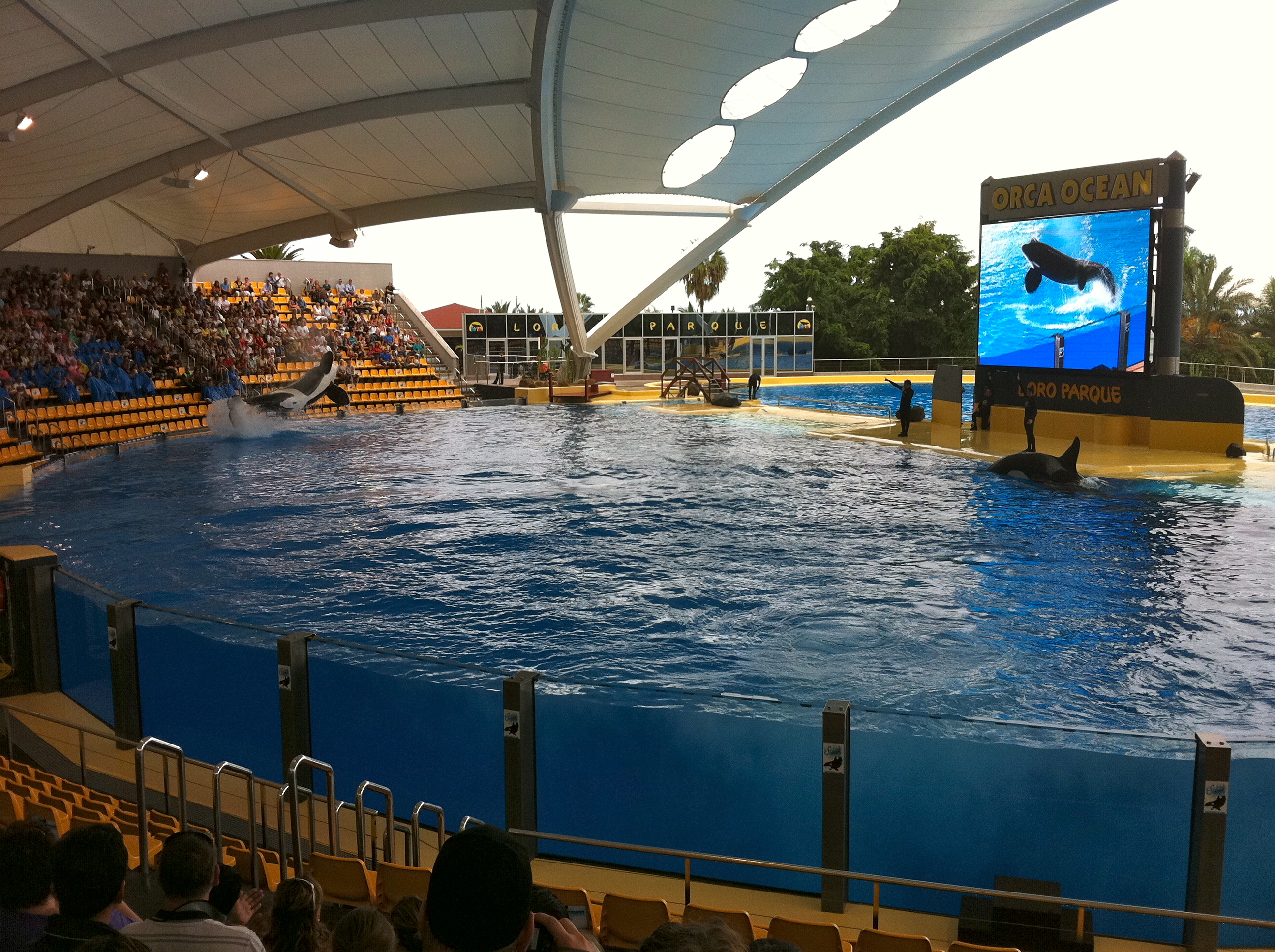 Orcas show in Lor parqueLietuvių: Orkų pasirodymas Loro parke